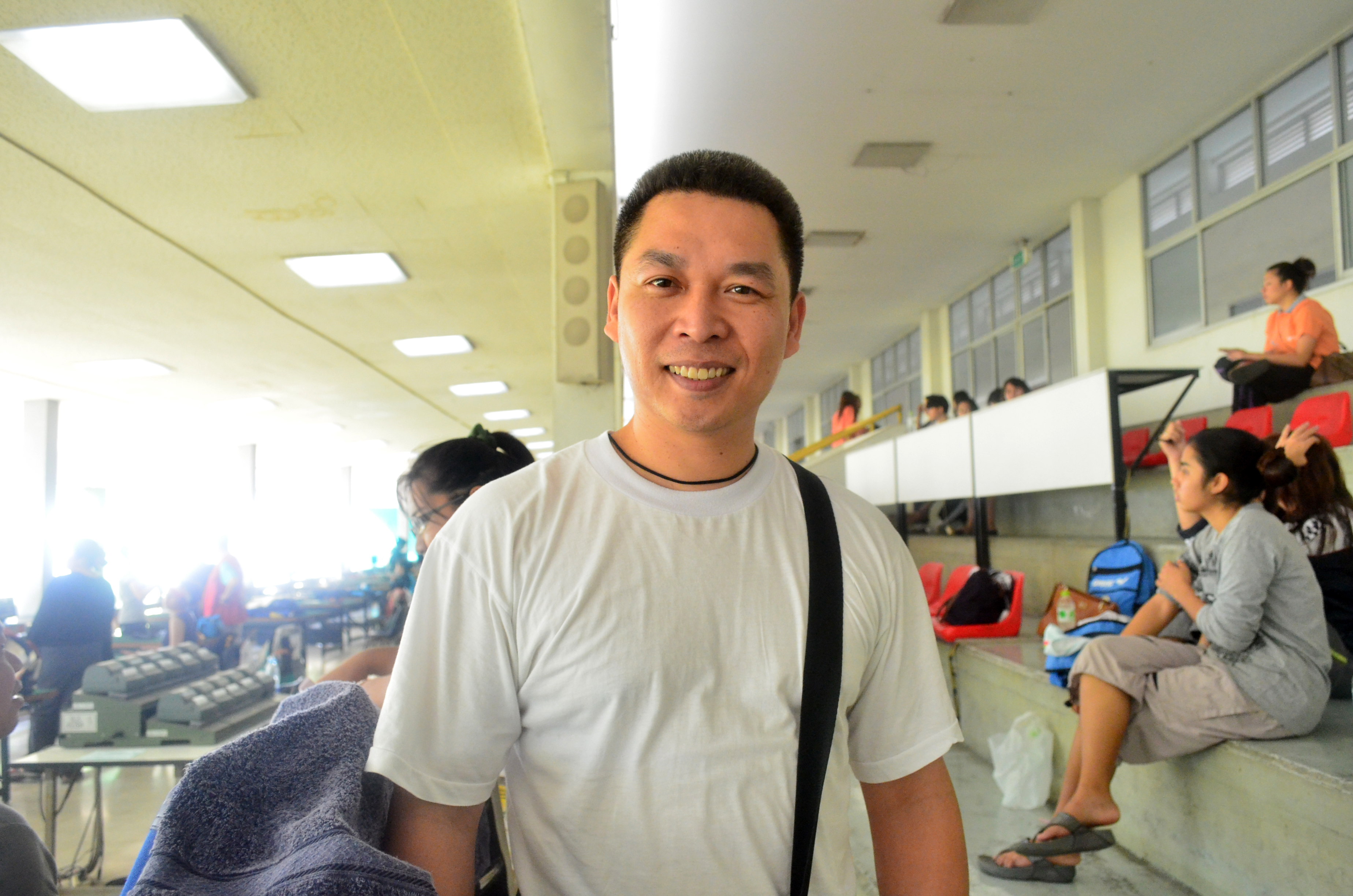 Tevarit Majchacheep